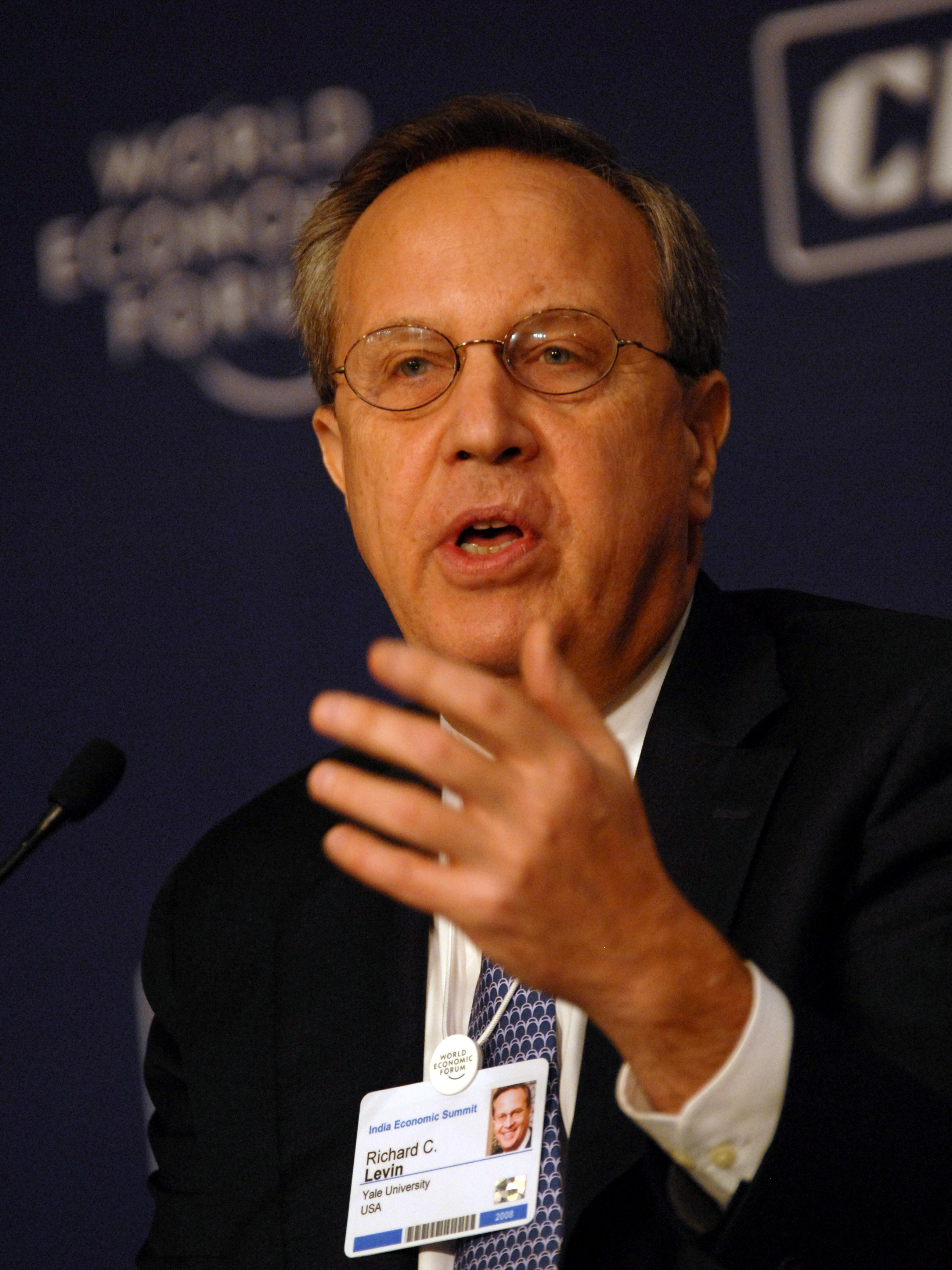 Rick Levin, American economist and President of Yale University, speaks at a plenary session titled Risks to India's Economy in a Post-Crisis World held at the World Economic Forum's India Economic Summit 2008 in New Delhi, India.